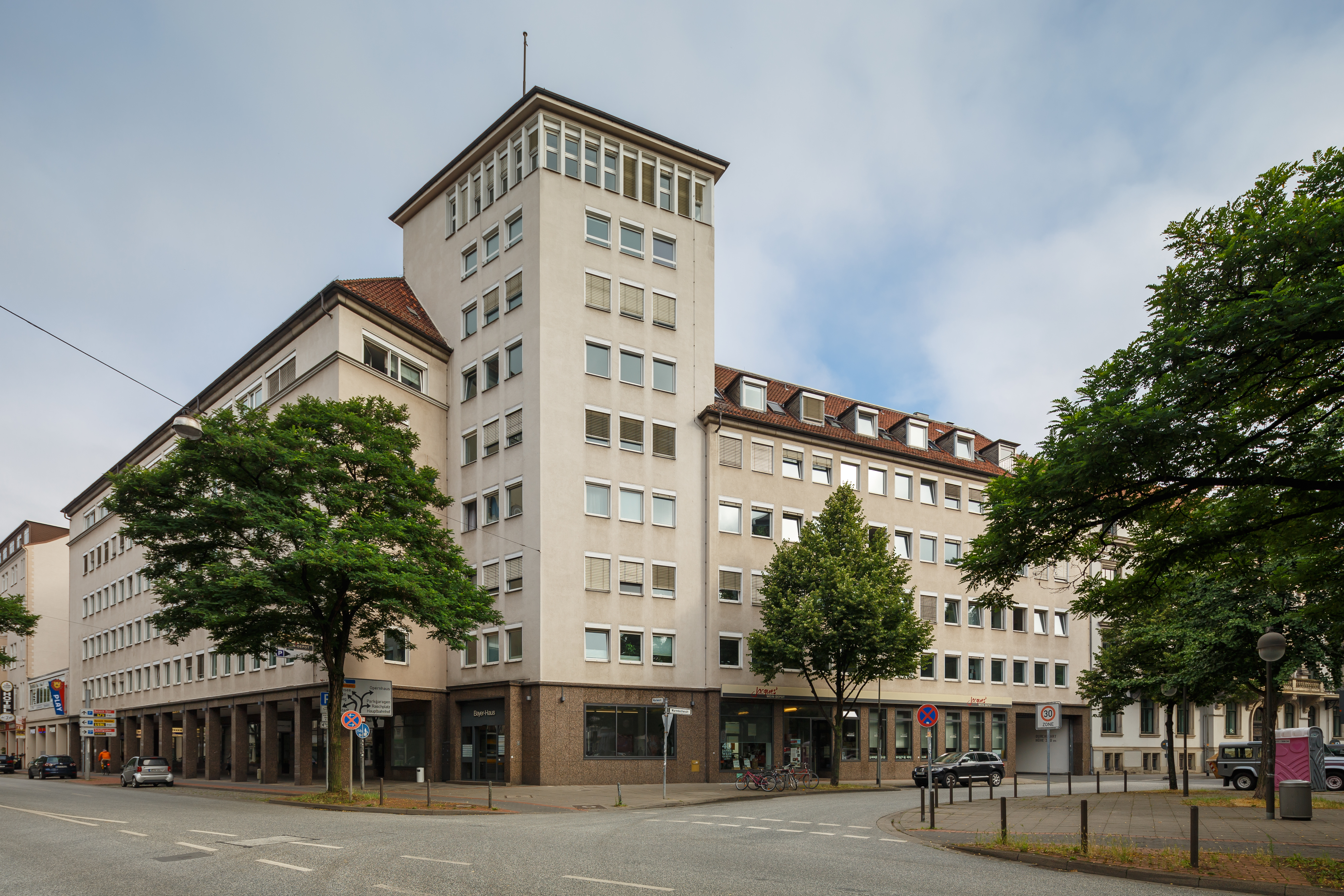 "Bayer-Haus" apartment and office building located at Marienstrasse in Hanover, Germany.